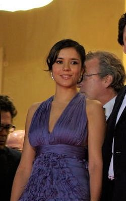 Colombian actress Catalina Moreno